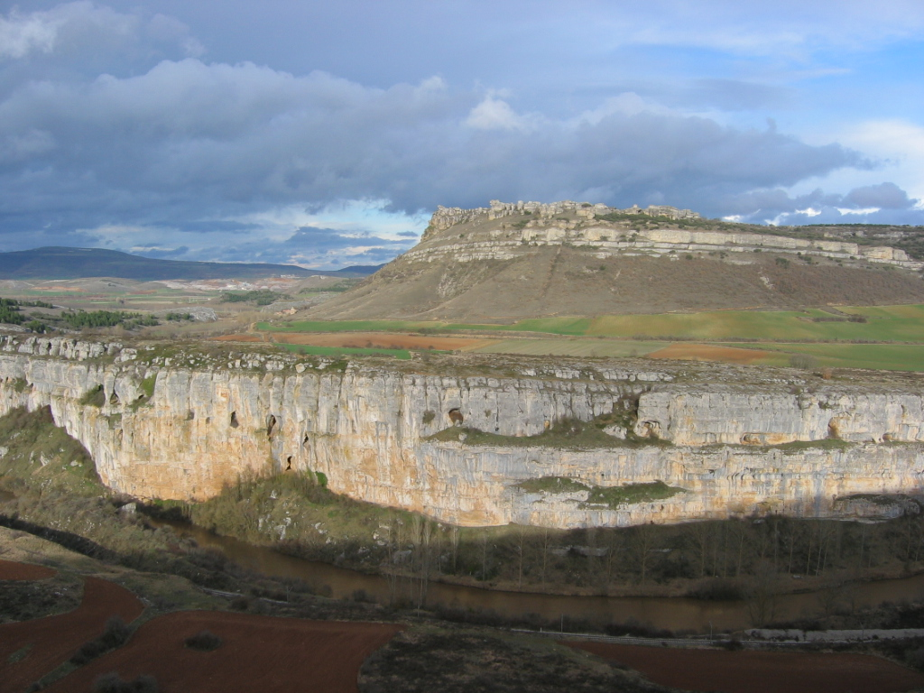 Archaeological site of El Cañón de la Horadada in Villaescusa de las Torres (Palencia, Castile and León).